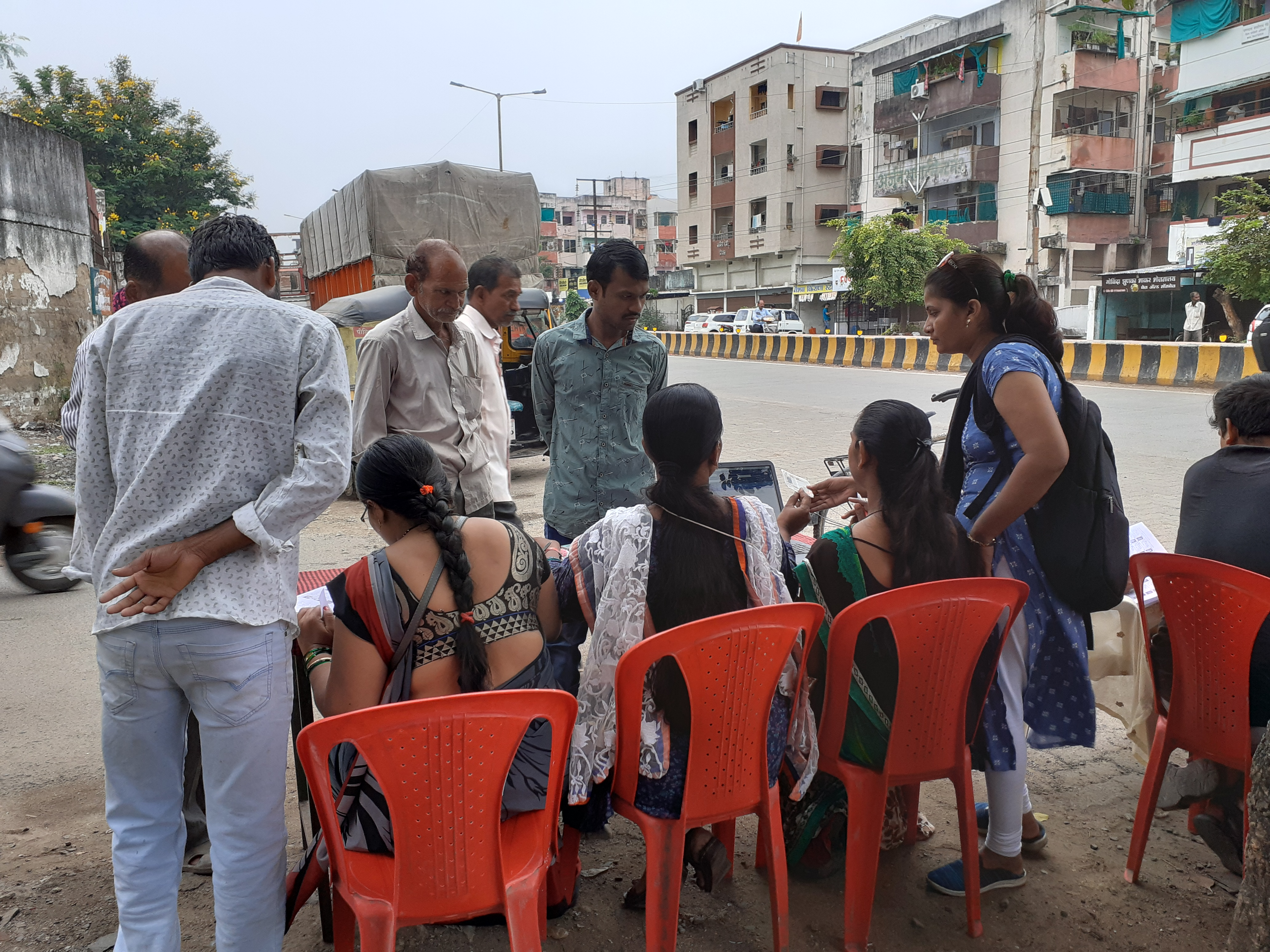 Voters of Nagpur (South) legislative assembly gather to look up their names in voter list for Maharashtra Assembly Elections 2019.